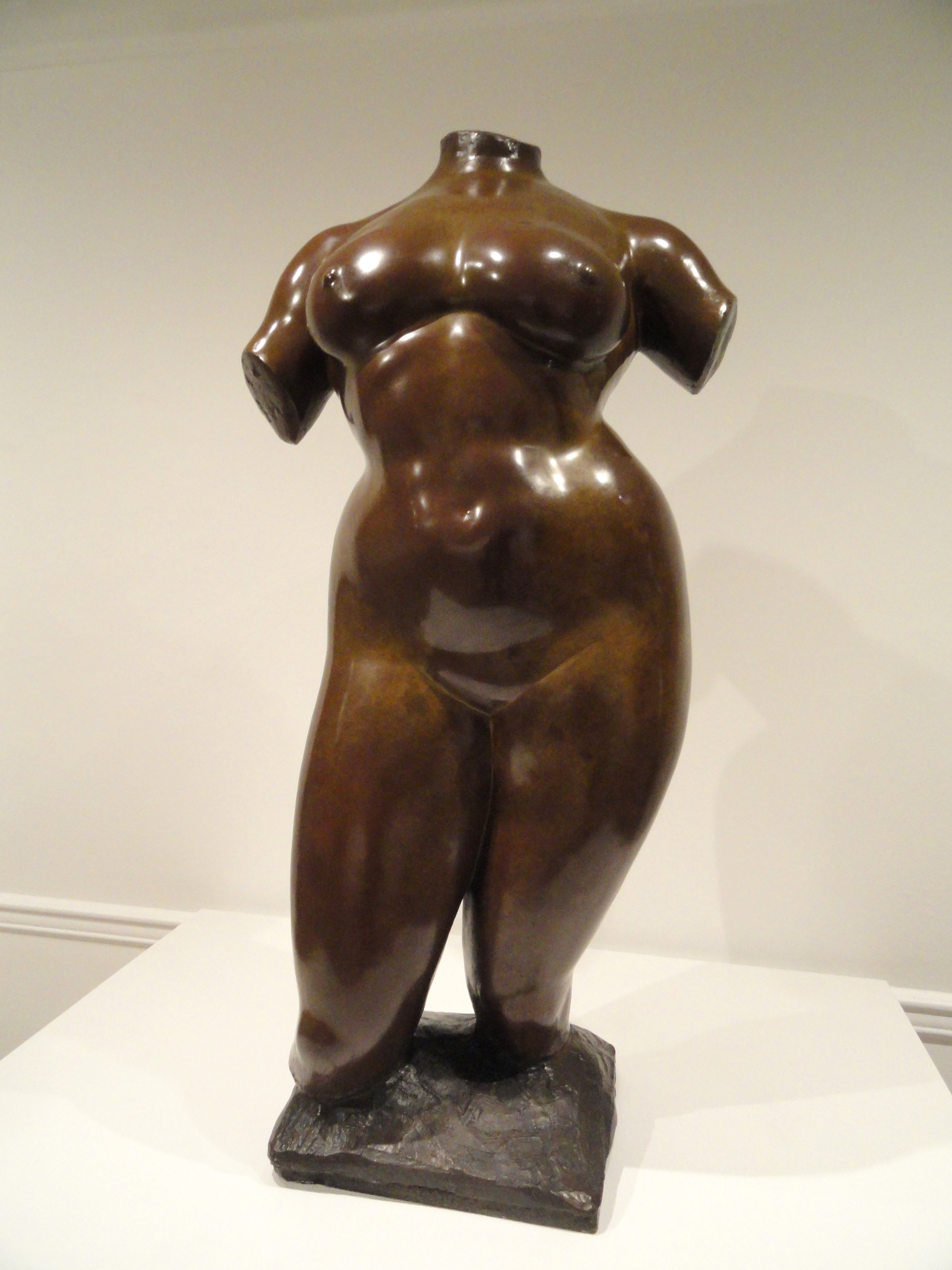 Sculpture exhibited in the Corcoran Gallery of Art, Washington, D.C., USA. There were no prohibitions against photography in the museum. This artwork is in the public domain because it was first published in the United States before 1923.